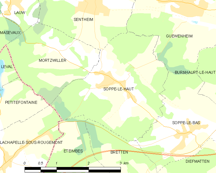 Map of French municipality